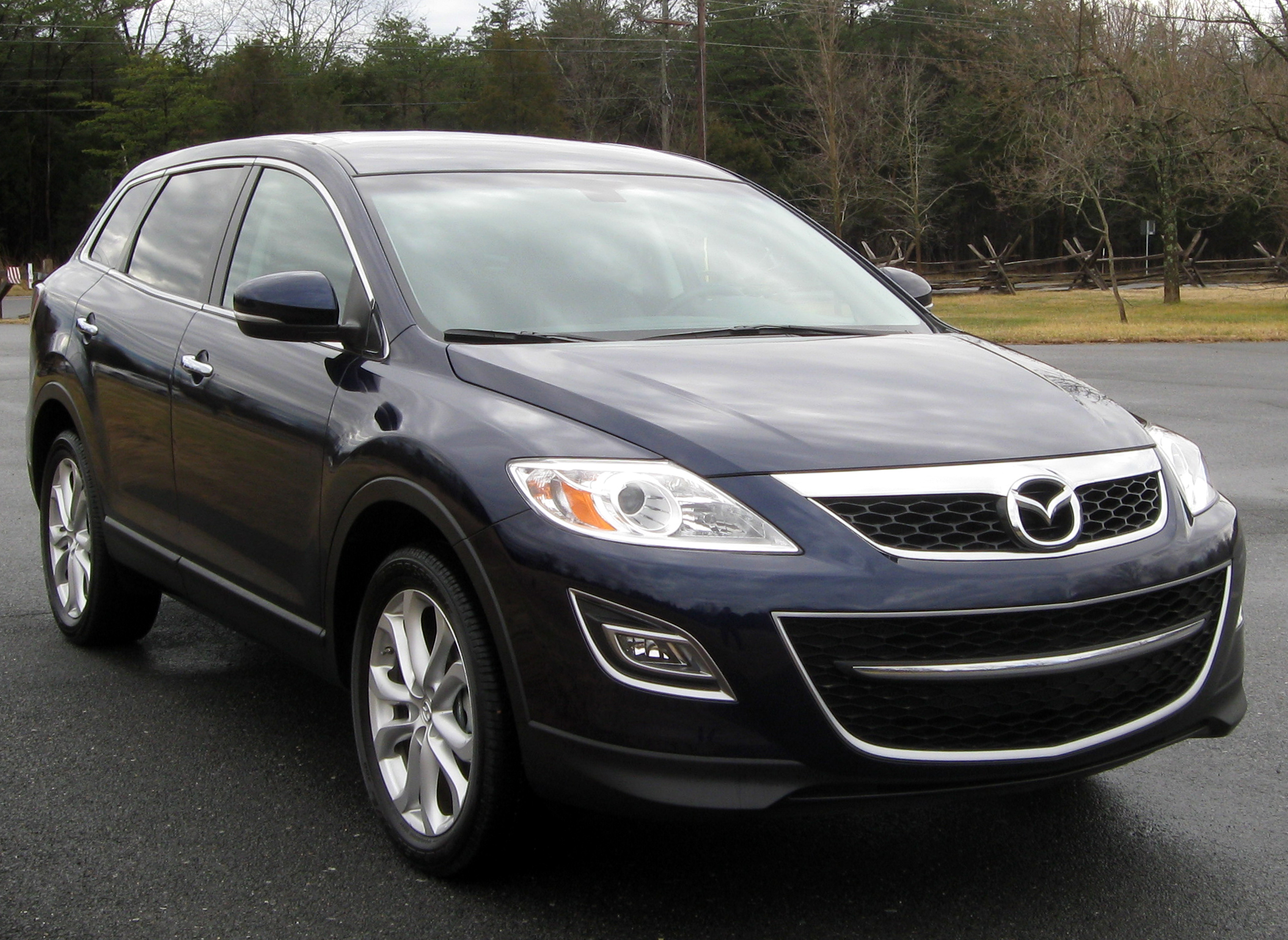 2012 Mazda CX-9 photographed in Manassas, Virginia, USA.